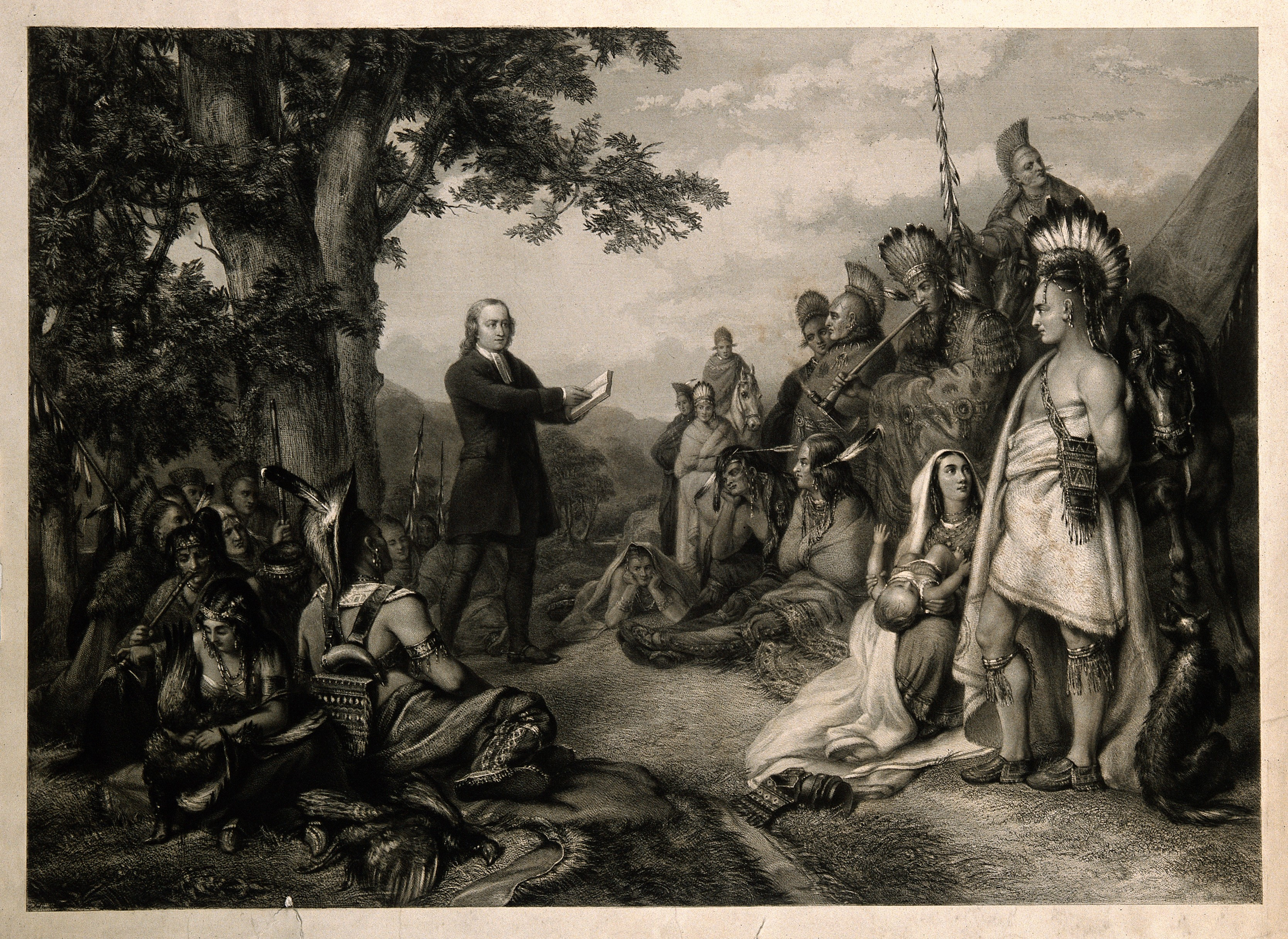 John Wesley preaching to native American Indians. Engraving. Iconographic Collections Keywords: John Wesley